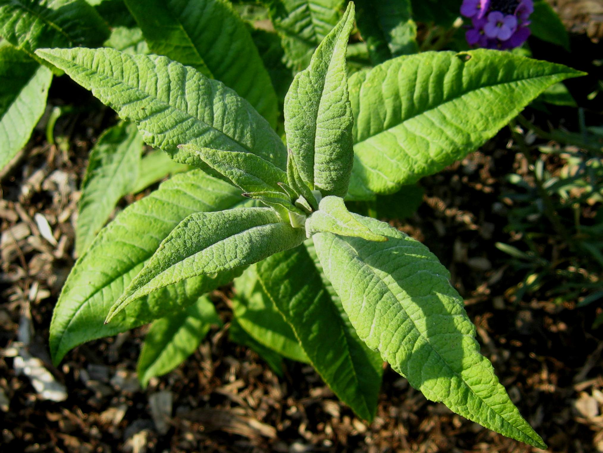 Leaves of Buddleja 'Orchid Beauty'.